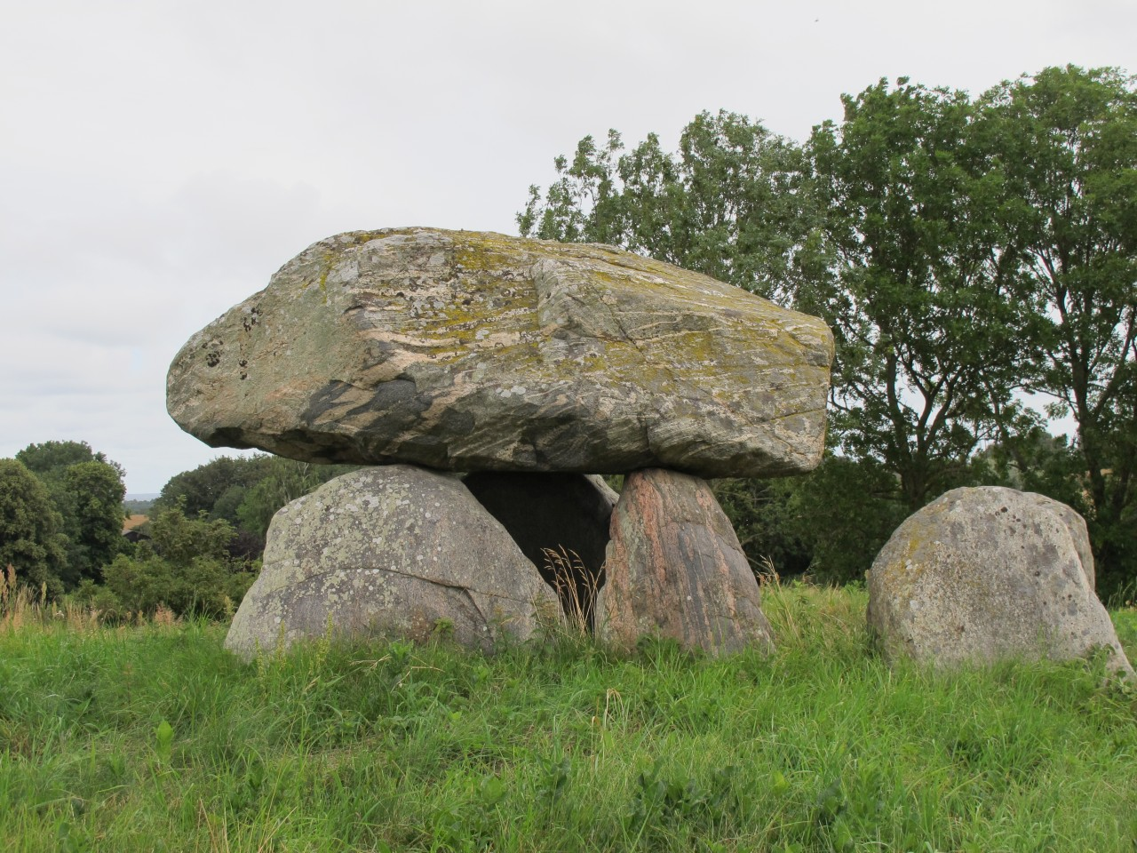 Toftebjerg Langdysse